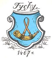 coat of arms of the city of Tychy